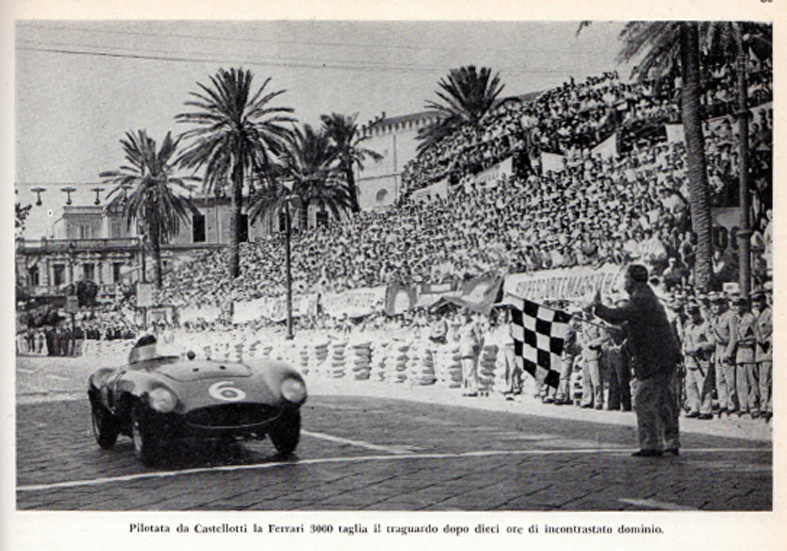 The Ferrari 3000 (3-litre engine) driven by Eugenio Castellotti, crosses the finish line after 10 hours of unchallenged domination of the 1955 10 Hours of Messina. In particular, this was the 1955 Ferrari 857 Sport s/n 0584M, and the other driver was Maurice Trintignant.[1]